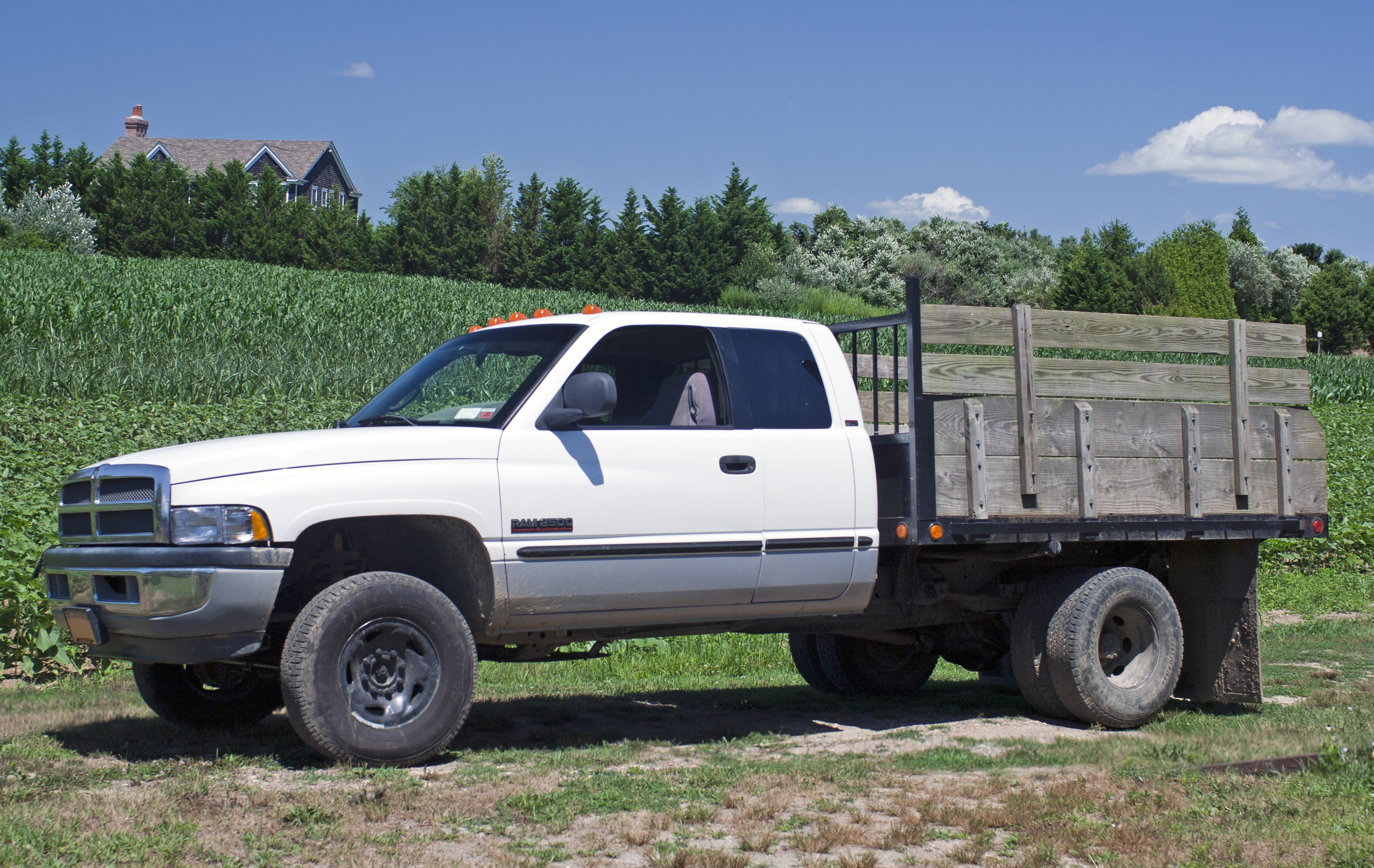 1999 Dodge Ram Cab 2500 Chassis Club Cab 4x4, 5.9 litre Cummins inline-six 24V turbodiesel. Built at Dodge's St. Louis North plant, this agricultural truck has a GVWR of 8,800 lbs